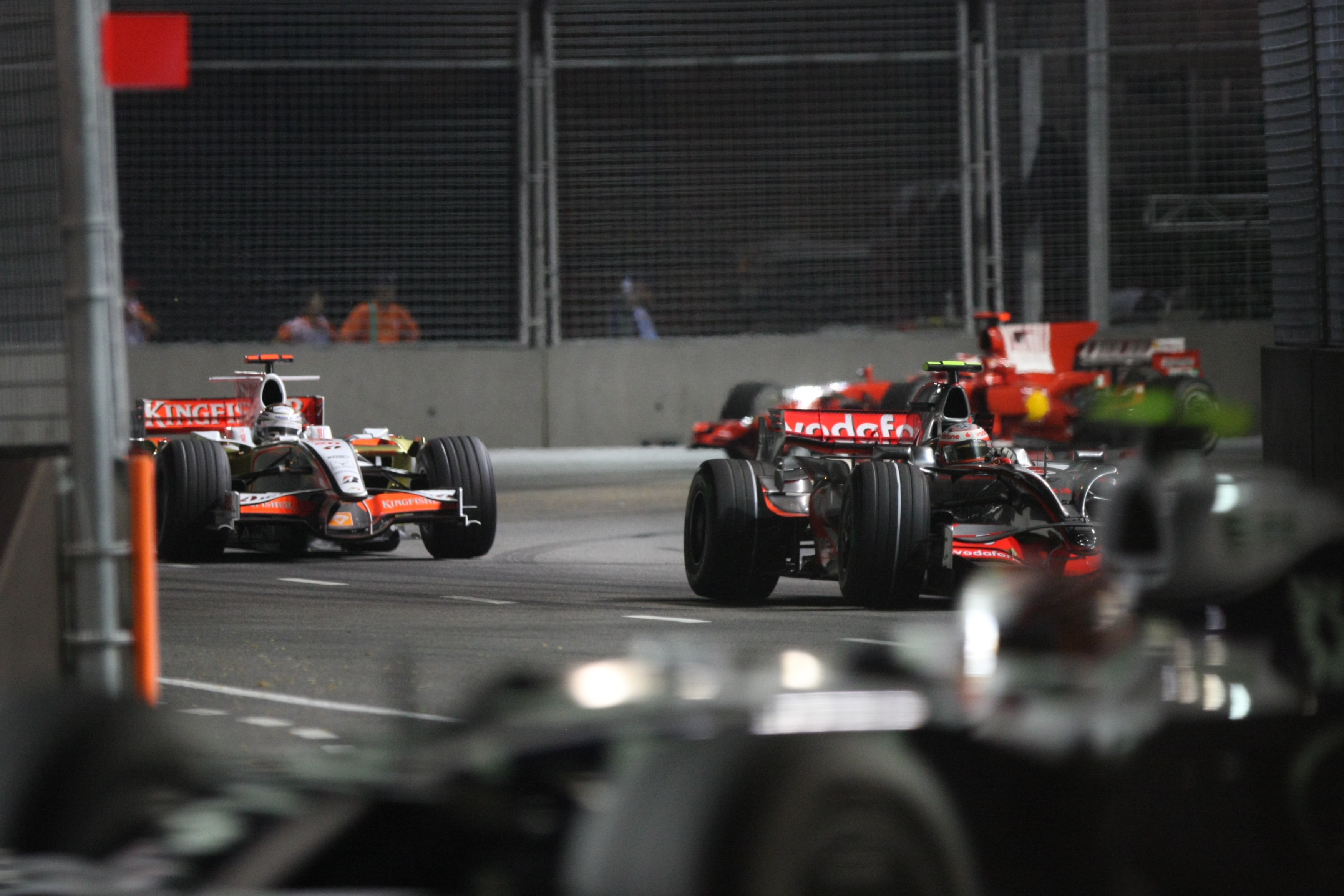 Cars snaking through turns 10 and 11, behind the safety car. From front to back - Kazuki Nakajima (in the Williams), Heikki Kovalainen (in the McLaren), Giancarlo Fisichella (in the Force India), and Kimi Raikkonen (duh, Ferrari).